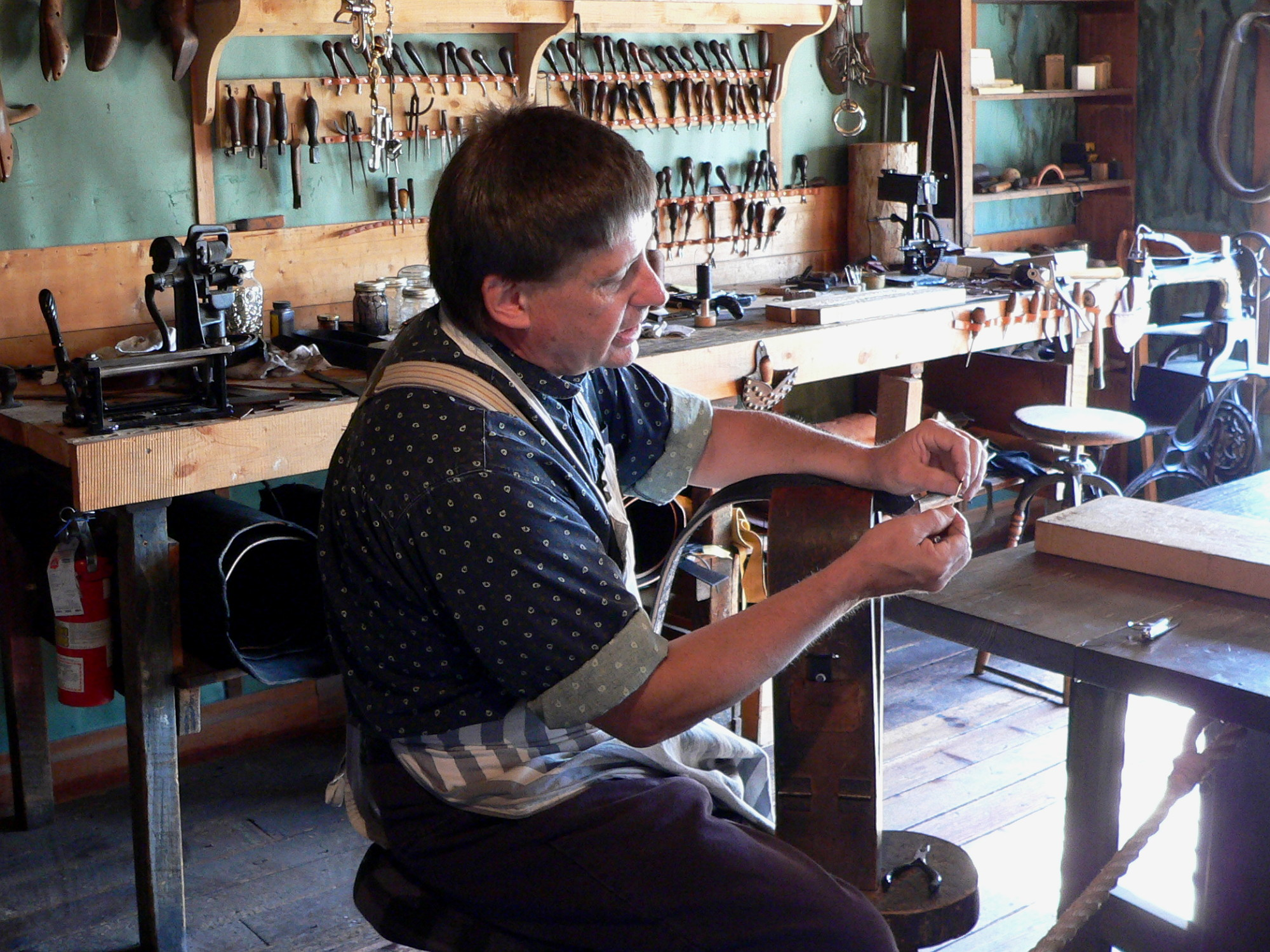 A leatherworker on the job at Fort Steele Heritage Park in British Columbia, Canada. Photo taken with a Panasonic Lumix DMC-FZ20.